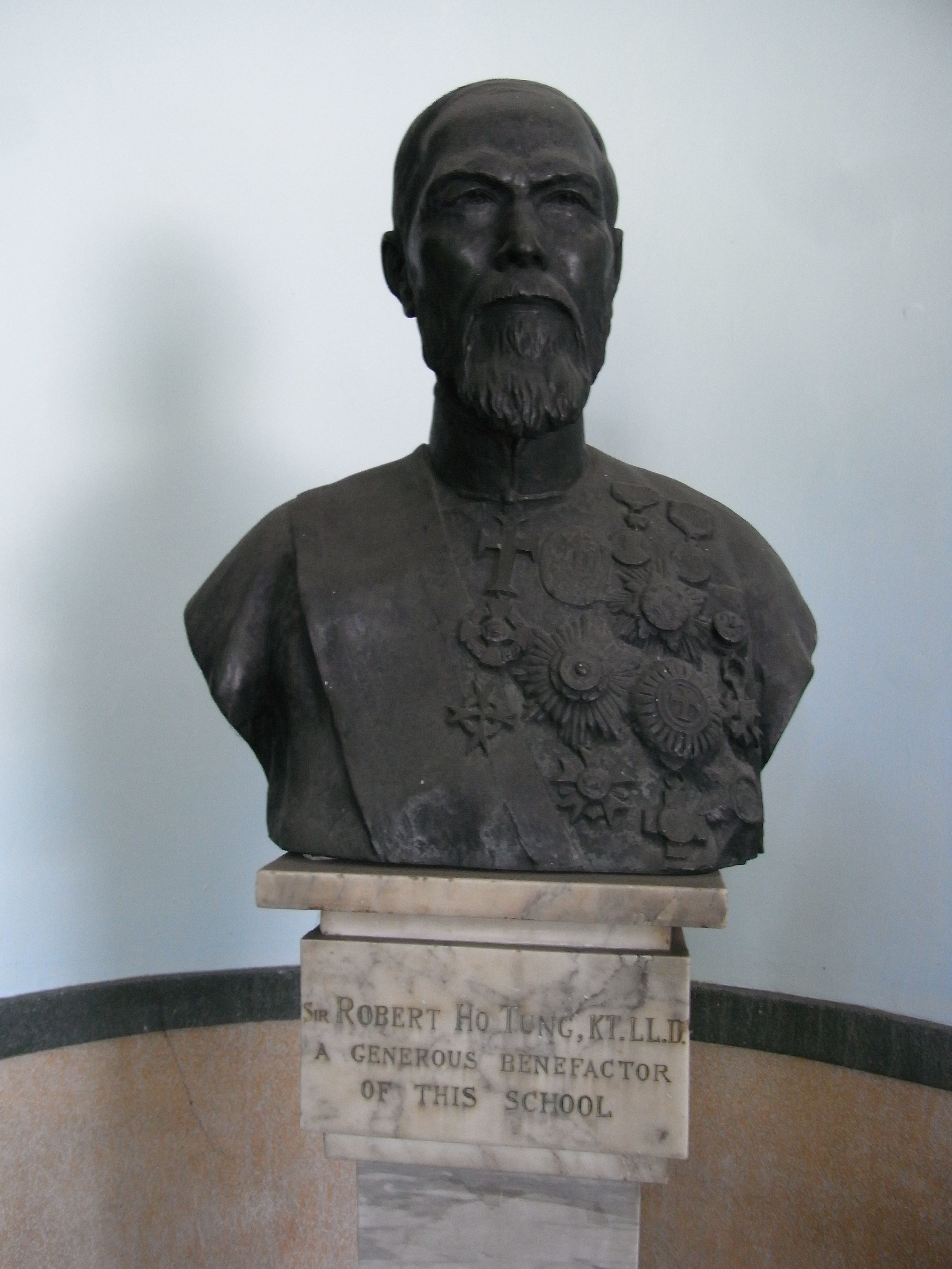 香港仔工業學校, Aberdeen Technical School, 1 Wong Chuk Hang Road, Aberdeen, Hong Kong